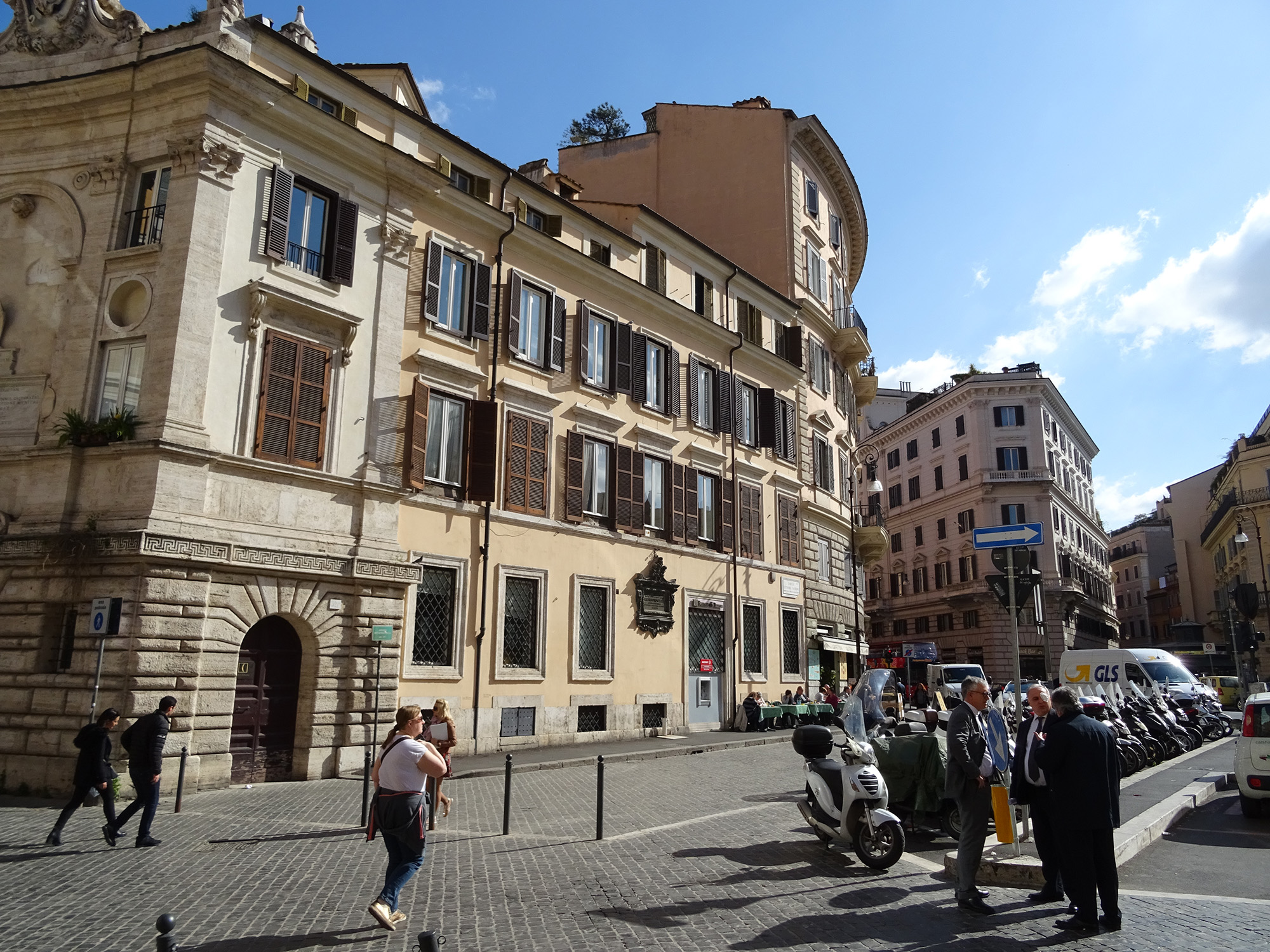 The 16th-century Palazzo del Banco di Santo Spirito stands at 31, Via Del Banco di Santo Spirito. Designed by famous artists such as Bramante and Antonio da Sangallo the younger, the palace is positioned near Via dei Coronari close to Ponte Sant'Angelo. The main façade is concave in form with an ashlar ground floor in the center of which there is a wide rectangular entrance. There are decorations on pilasters, Corinthian capitals, coats of arms, roundels, statues and an enormous arch. The other façade has an inscription that commemorates Benvenuto Cellini who worked at one time in the papal mint.